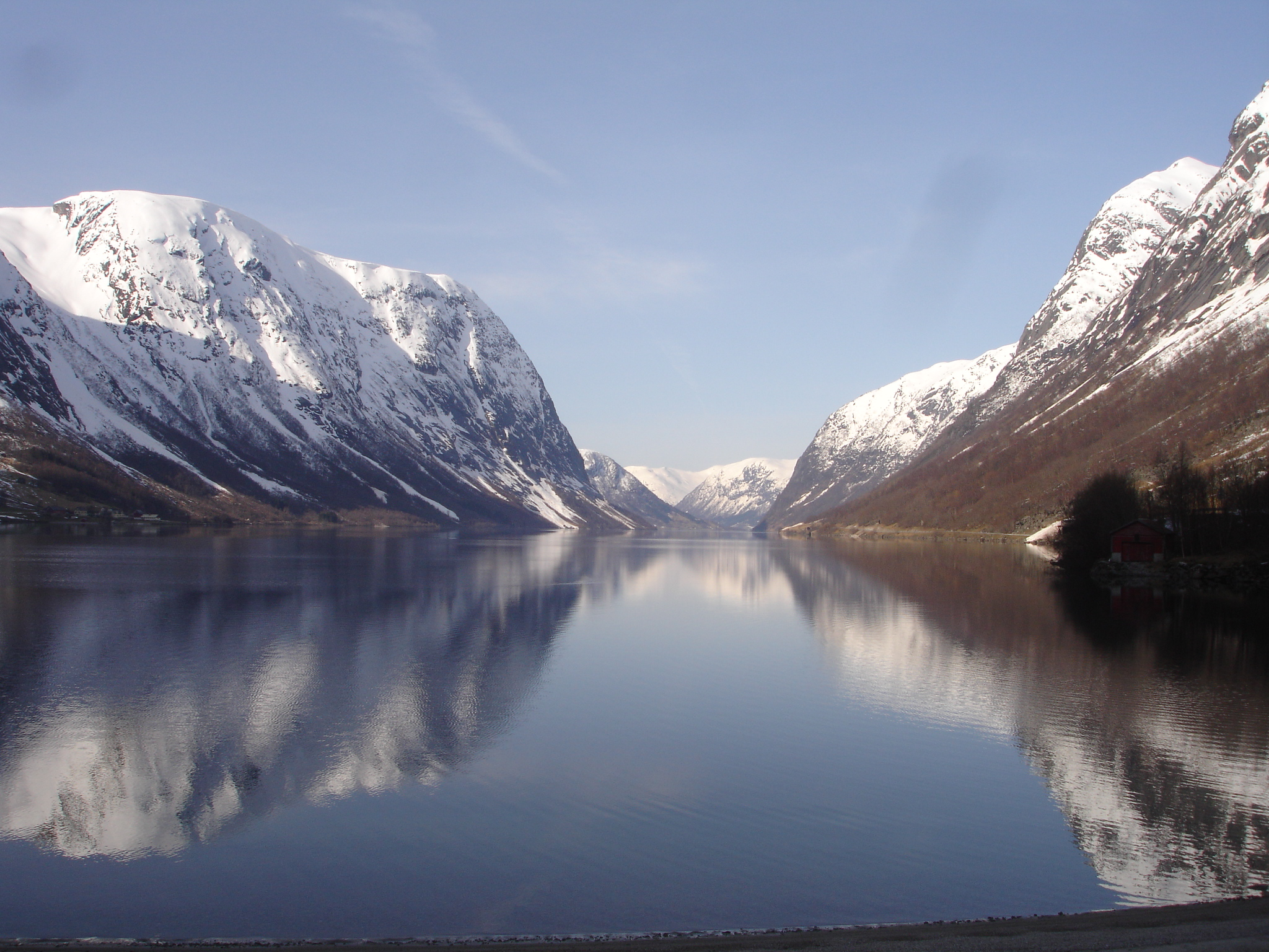 Kjøsnesfjorden in Sogn og Fjordane province, Norway. The Kjøsnesfjorden is the eastern branch of lake Jølstravatnet, which releases its water by Jølstra river into Førdefjorden. Førdefjorden opens into the Norwegian Sea 30 km north of Sognefjorden.